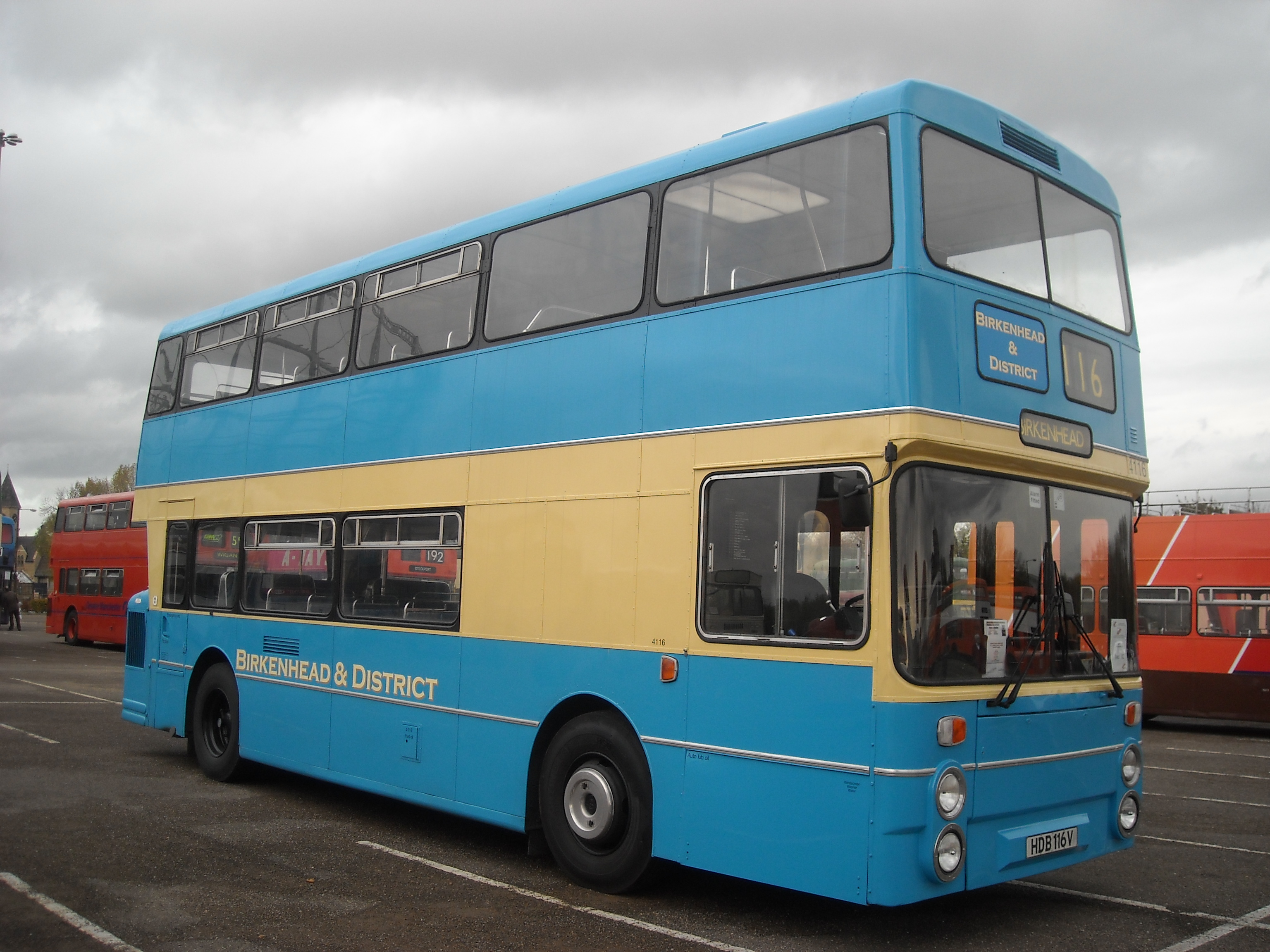 Reason behind the title is because way back in the mid 90s......circa late 1993 to Summer 1995 both GM Buses (which by then had been split into GM Buses North and South) and MTL invaded Greater Manchester and Merseyside respectivley. GM Buses South's attack on Merseyside was the Birkenhead & District which used Fleetlines like this one, now preserved in the livery and seen at Sportcity on Saturday 31st October